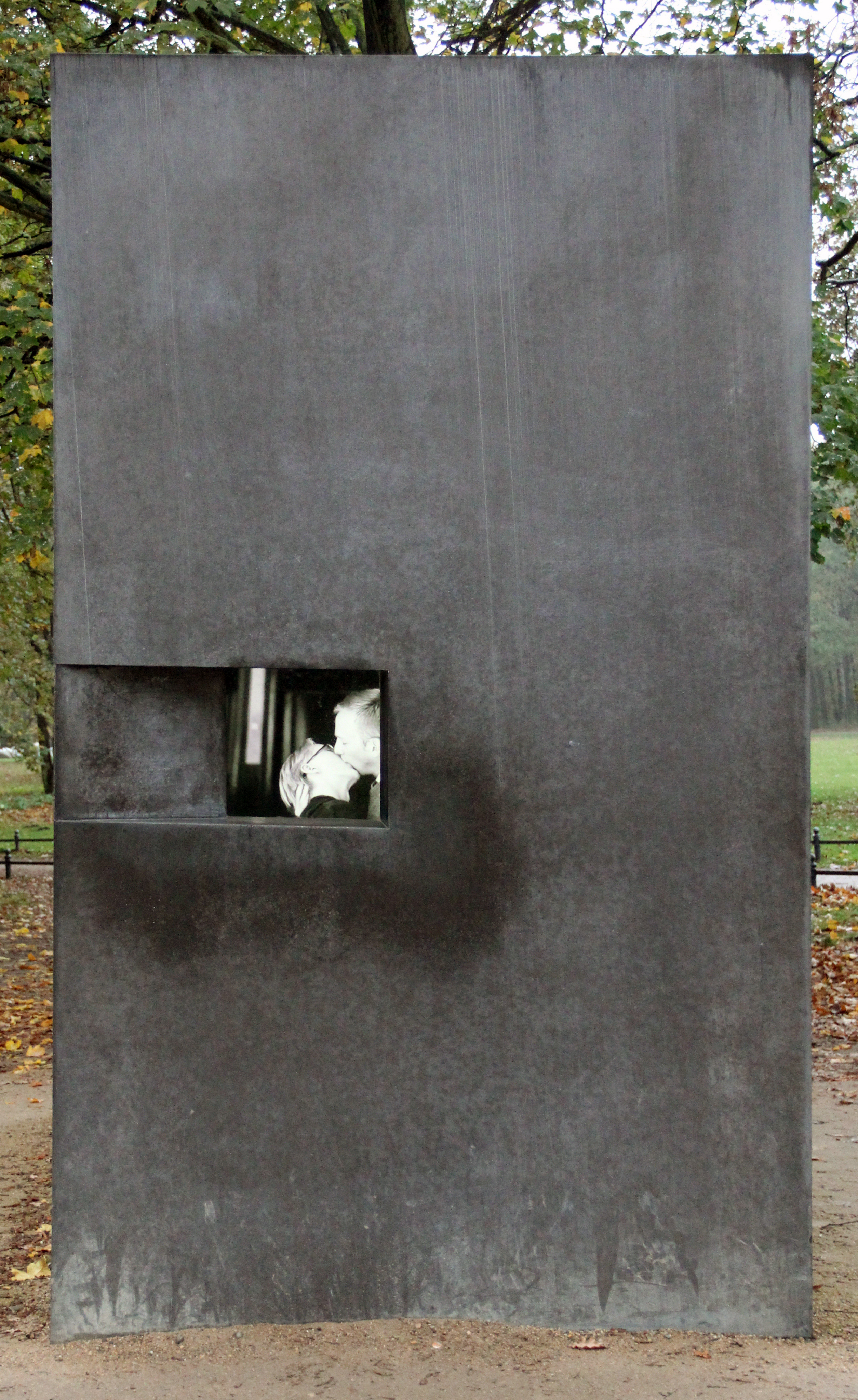 Memorial, "Denkmal für die im Nationalsozialismus verfolgten Homosexuellen" by Michael Elmgreen and Ingar Dragset, 2008, Ebertstraße, Berlin-Tiergarten, Germany